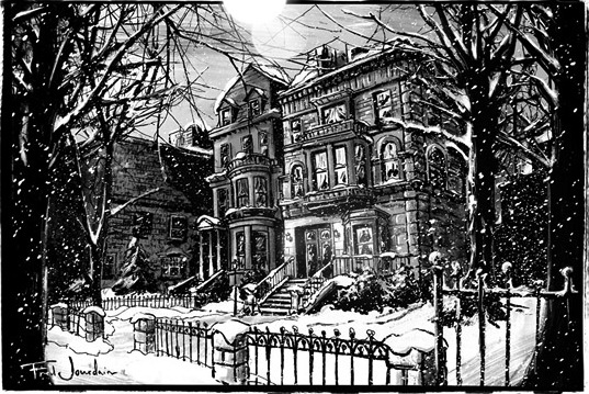 Round Midnight illustration